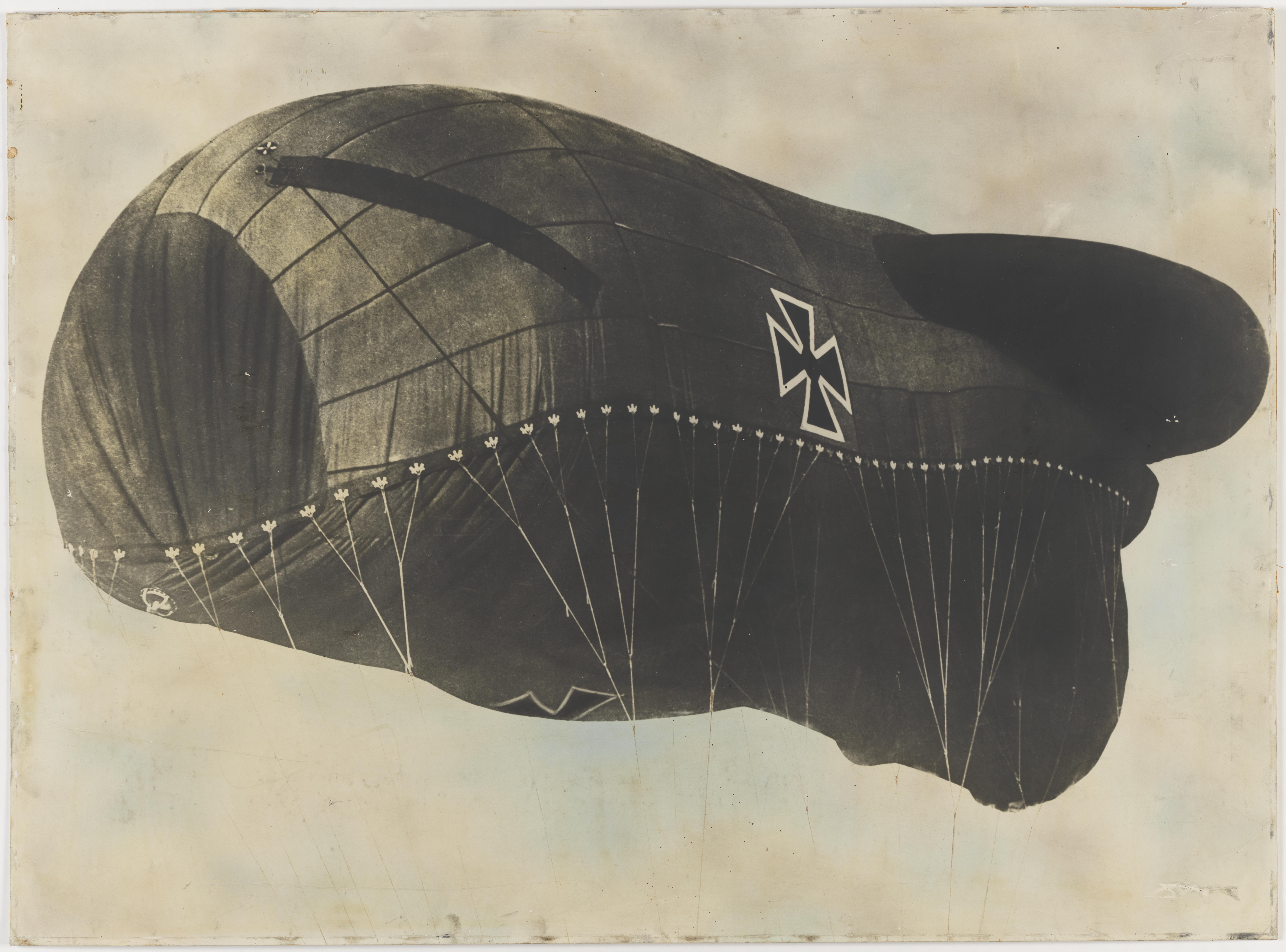 Format: Hand-coloured photograph from an exhibition of war photographs in natural colour produced by Colart's Studios, Melbourne, in the 1920s. Notes: Find more detailed information about this photographic collection: .au/item/itemDetailPaged.aspx?itemID=126525 From the collection of the State Library of New South Wales